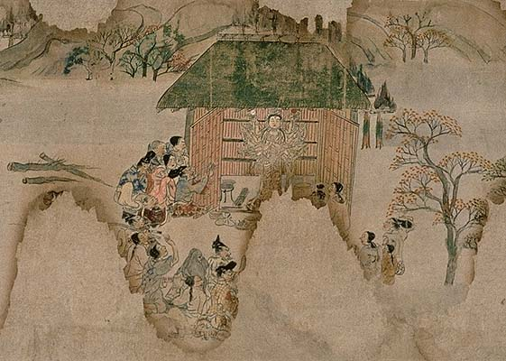 The Legendary Origins of Kokawadera (紙本著色粉河寺縁起, shihon choshoku Kokawadera engi). Handscroll (Emakimono), 30.8 cm、x 1984.2 cm. Color on paper. Located at Kokawadera (粉河寺), Kinokawa, Wakayama.